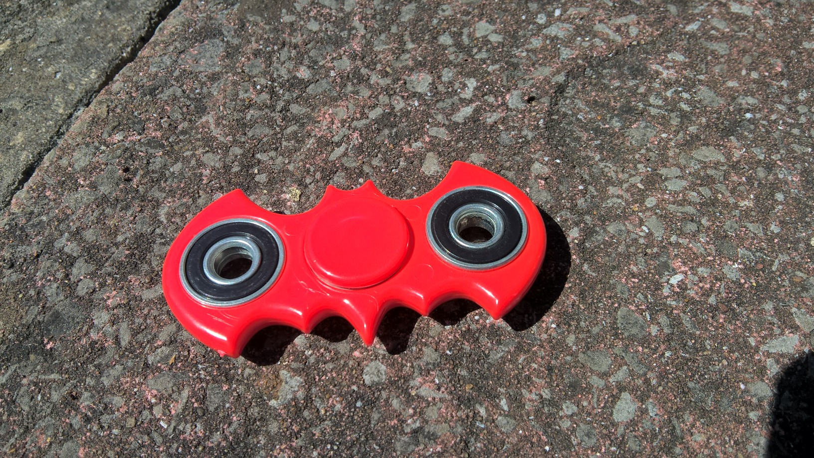 Batman fidget spinner. Currently these fidget spinners ar so cool 😎 every one is having one. Watch this batman figget spinner on youtube